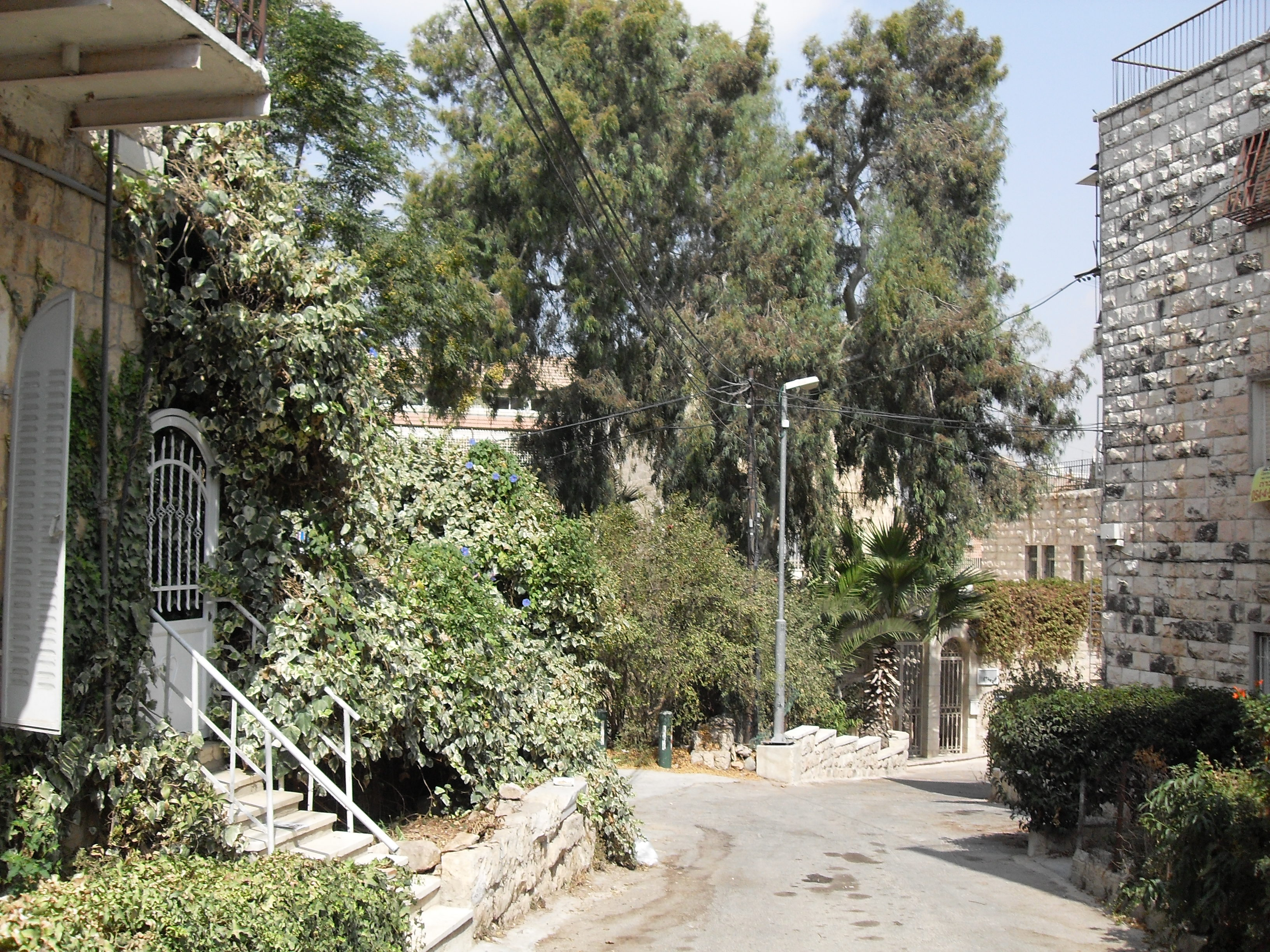 Jerusalem, Mahane Israel neighborhood, Zamenhof street, Lazarist Fathers garden